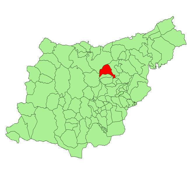 Asteasu municipality in the province of Guipuzcoa